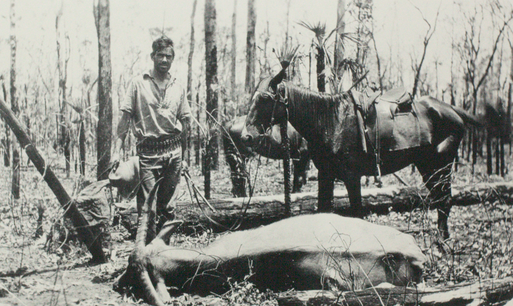 Tom Cole, buffalo shooter with his horse and a dead buffalo. (PH0200-0426)